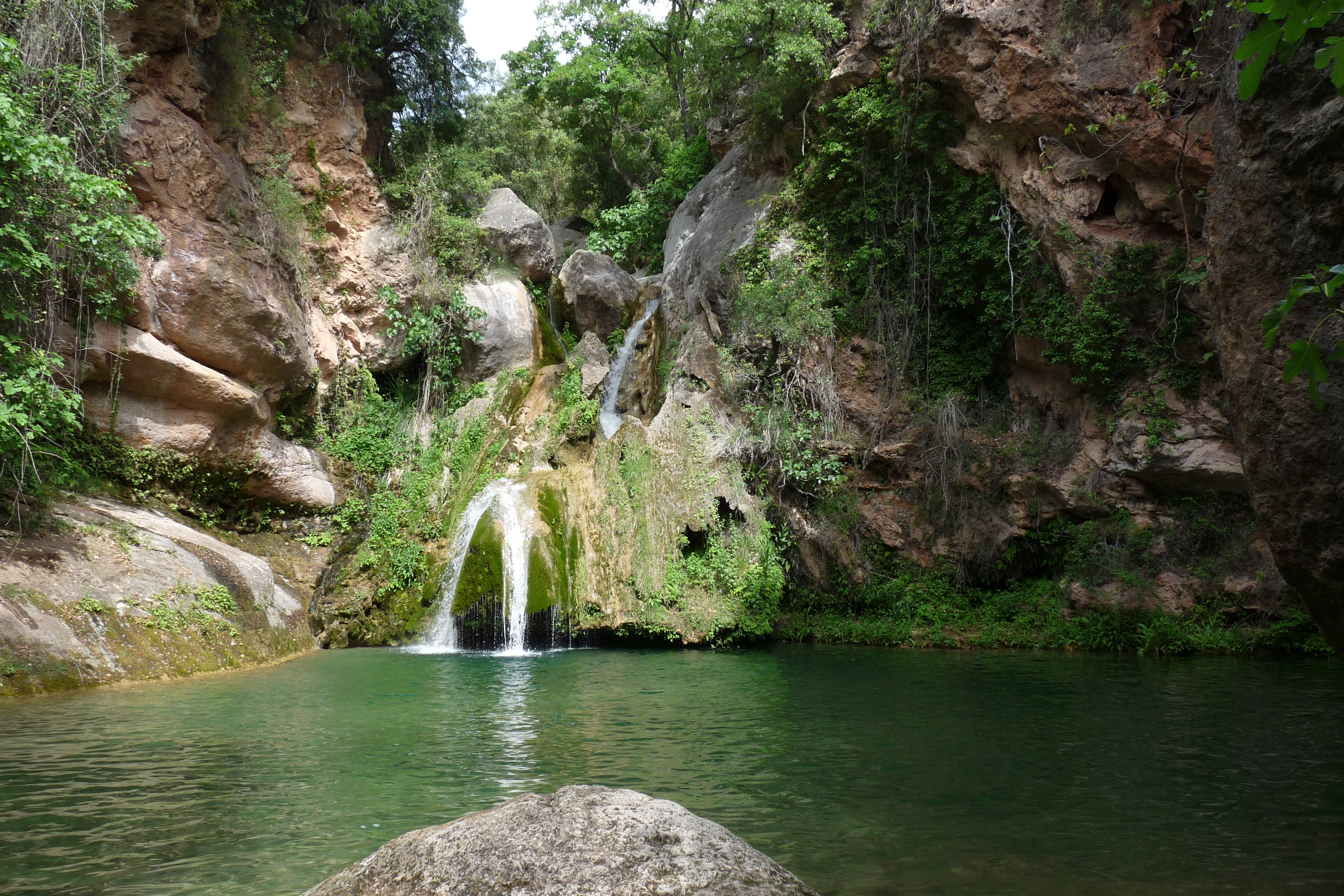 The pool of the Niu de l'Àliga (Nest of the Eagle) in the Glorieta river, Alcover